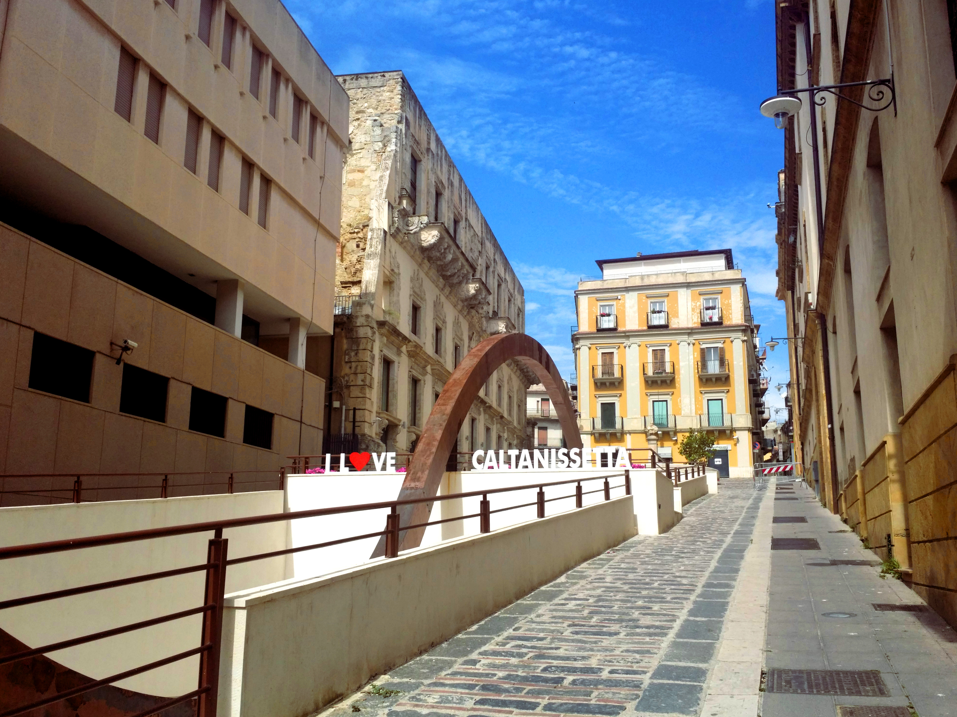 "Salita Matteotti" street in Caltanissetta, Italy, in 2018. At the center, the contemporary art museum realized in the premises of the former anti-aircraft shelter; on the left, in order, the Bank of Italy building and the Moncada Palace; in the background, the former Hotel Concordia, on the right the back of Palazzo del Carmine, the town hall.